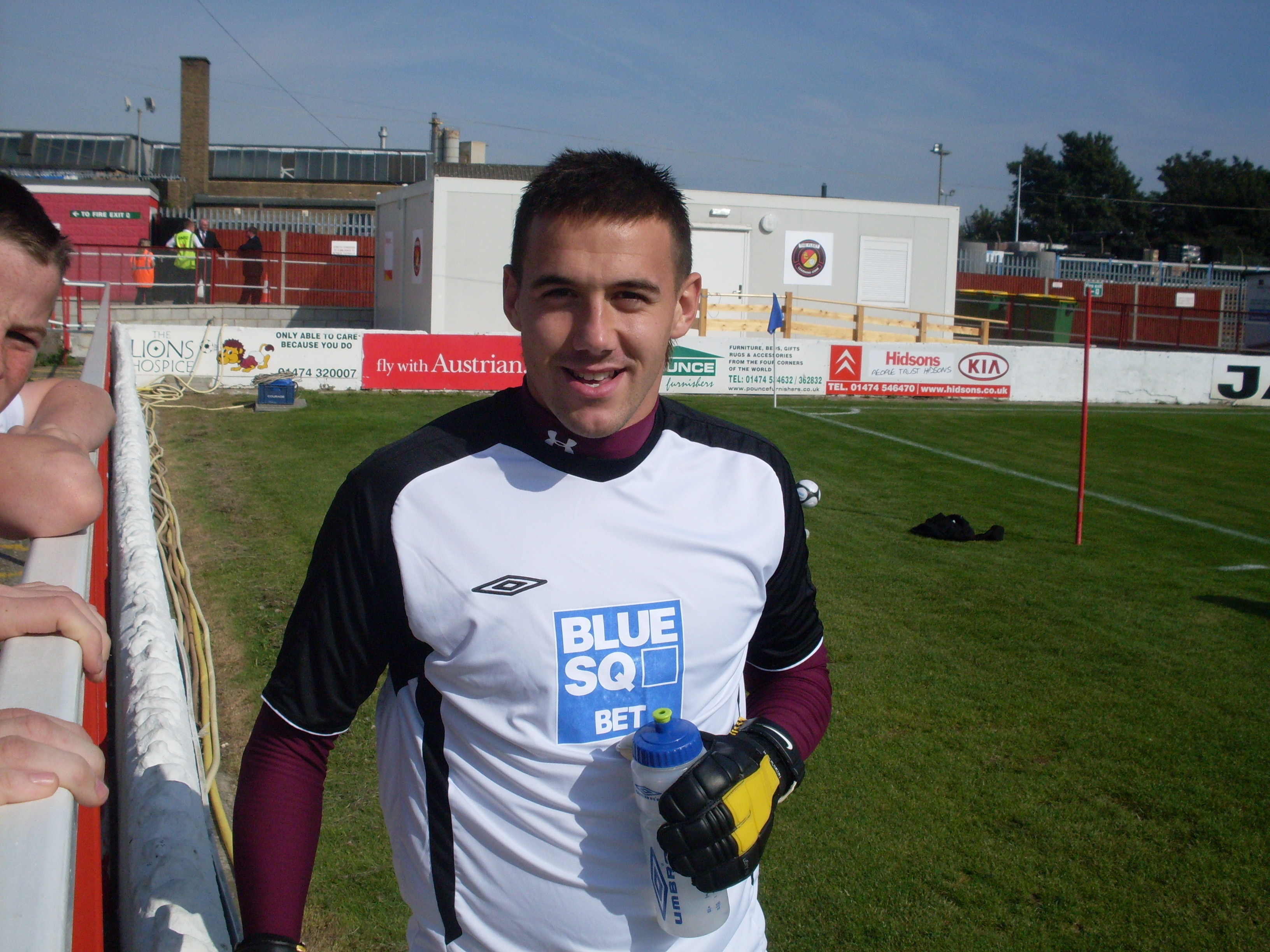 i took this at ebbsfleet when they played in 2008